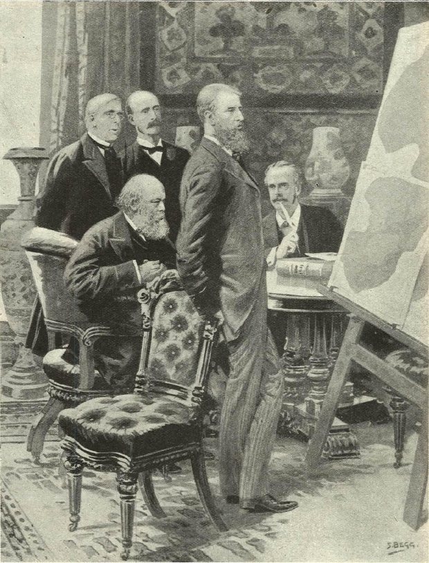 Defence Committee meeting in London. George J. Goschen, Lord Salisbury, Henry Petty-Fitzmaurice, 5th Marquess of Lansdowne, Spencer Cavendish, 8th Duke of Devonshire, Arthur Balfour, 1st Earl of Balfour.